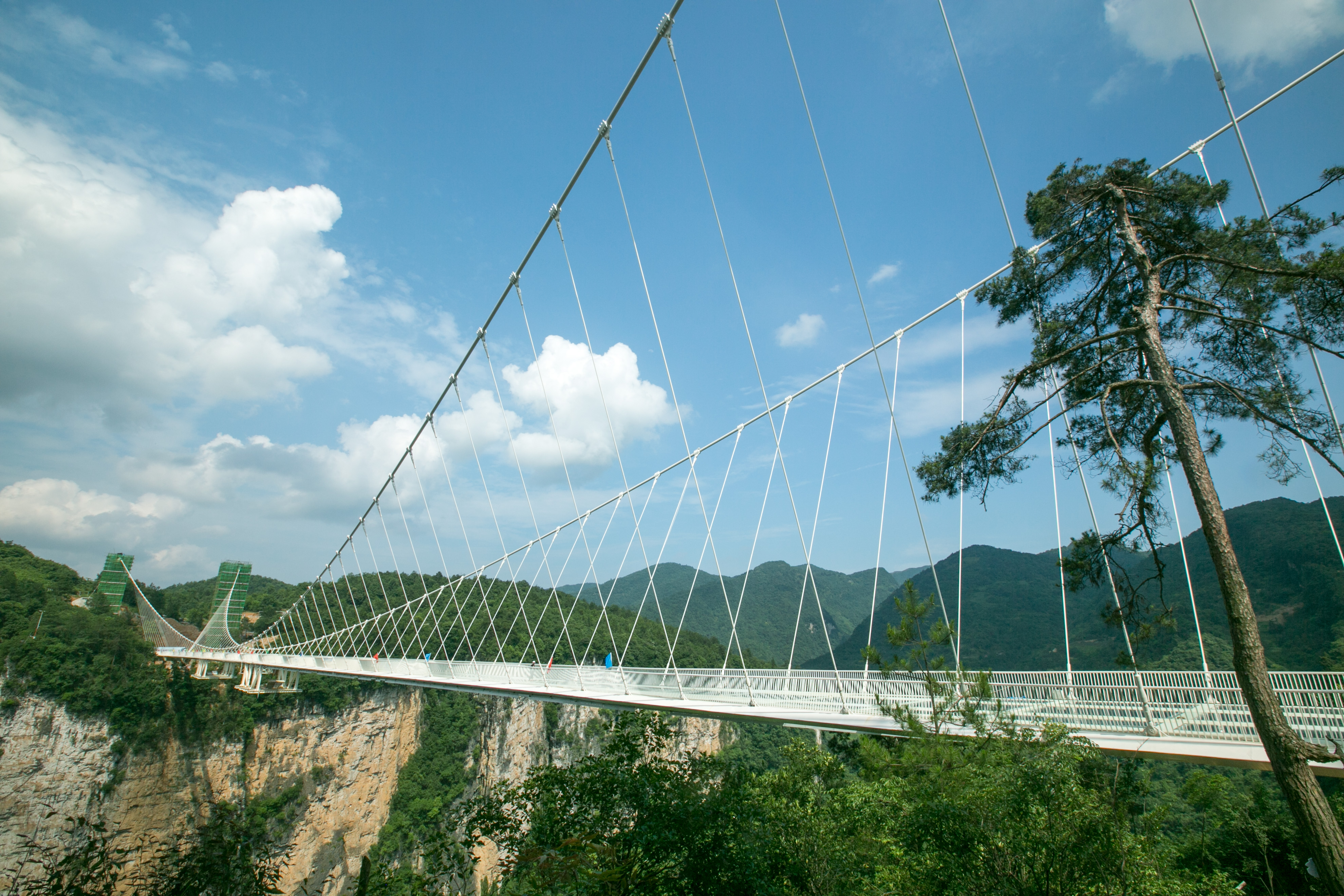 The First Longest Glass Bridge in the World